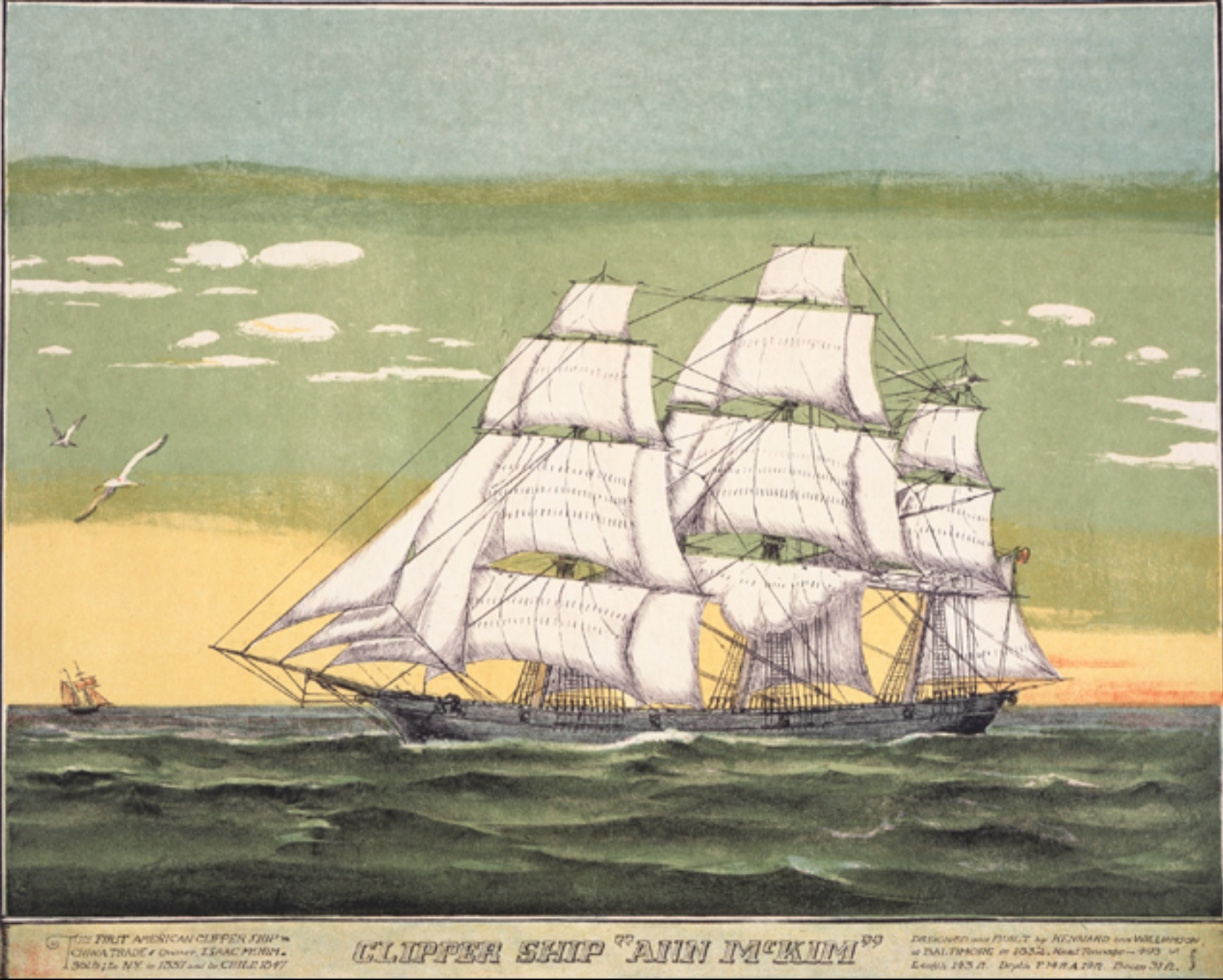 Clipper Ann McKim, from a lithograph of master mariner and ship model maker E. Armitage McCann, circa 1920s